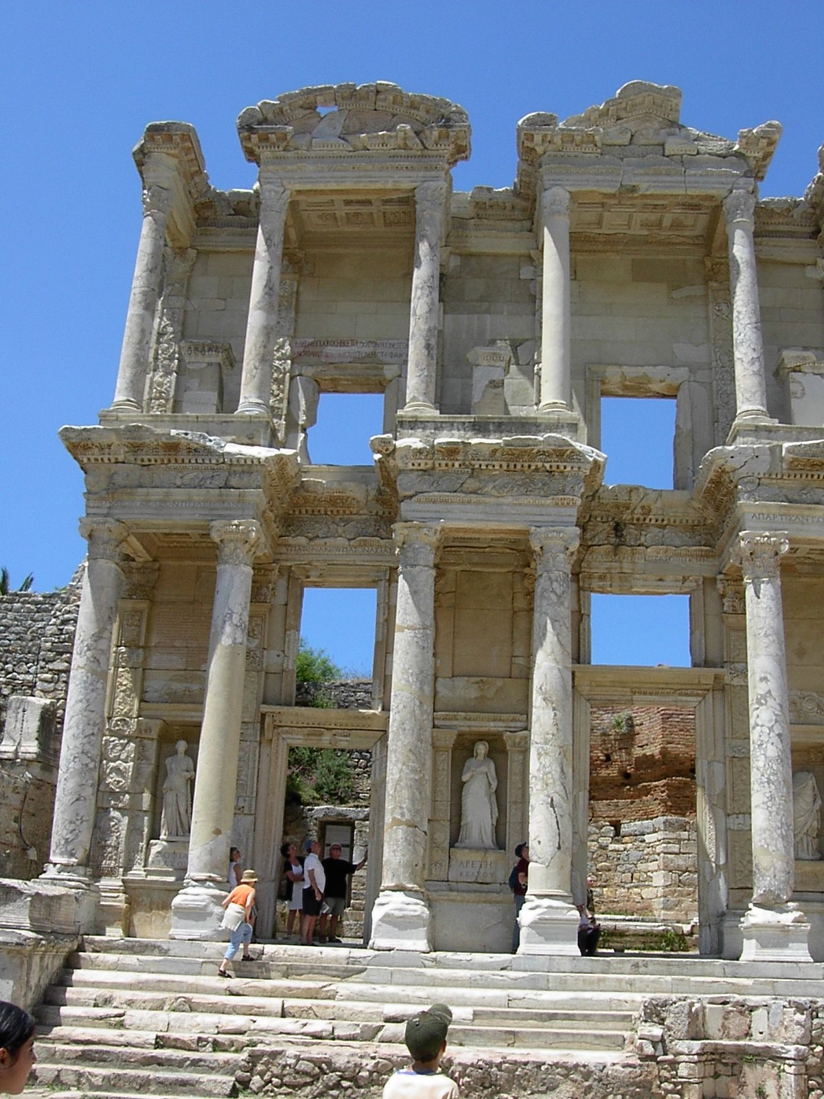 Facade of the Library of Celsus, Ephesus.